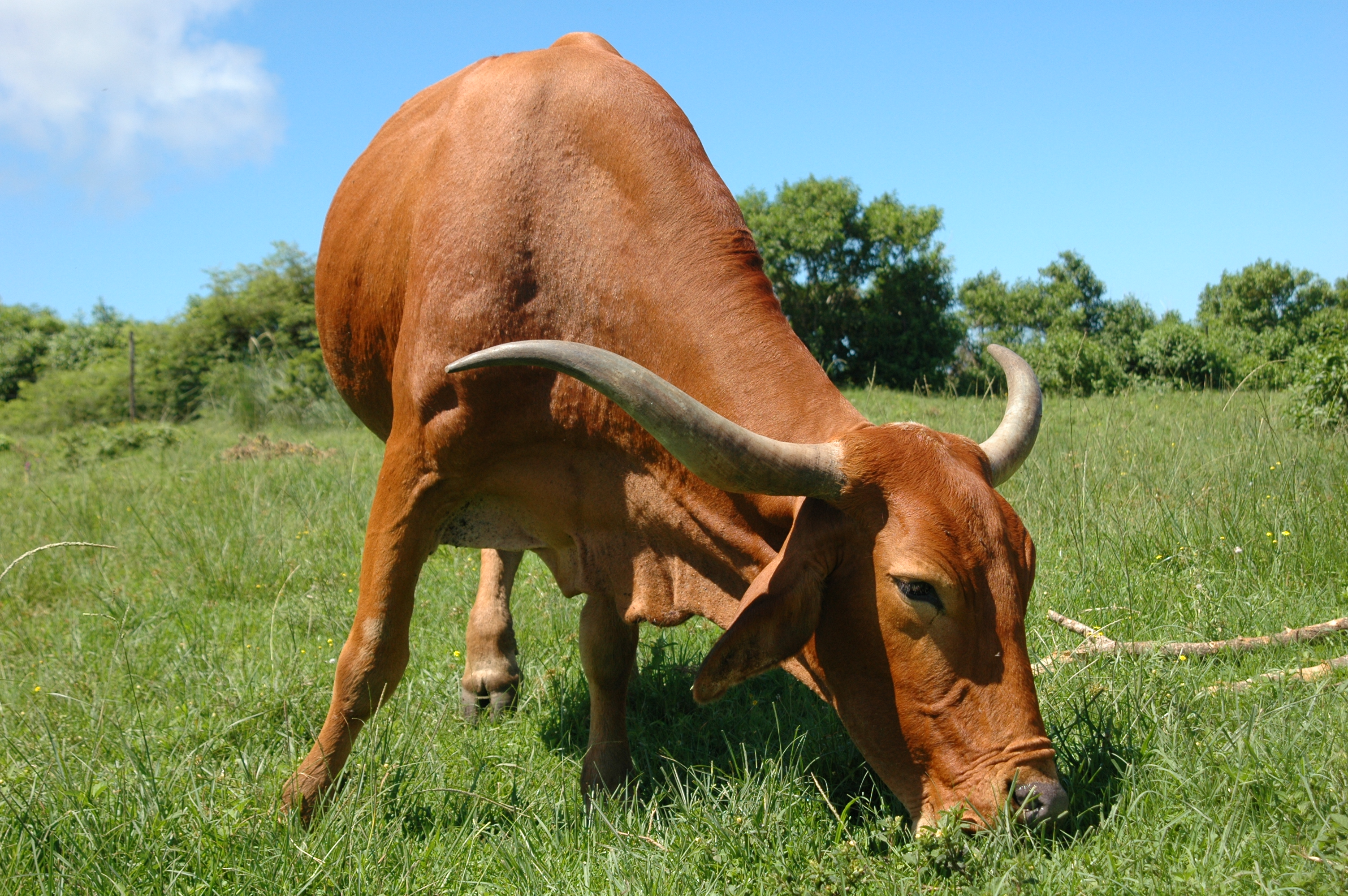 A Afrikaner cattle cow photographed in Transkei, South Africa. – Afrikaner cattle (Afrikander cattle) are a hardy breed of beef cattle which are popular in South Africa. In Afrikaans, this breed is called Afrikanerbees.